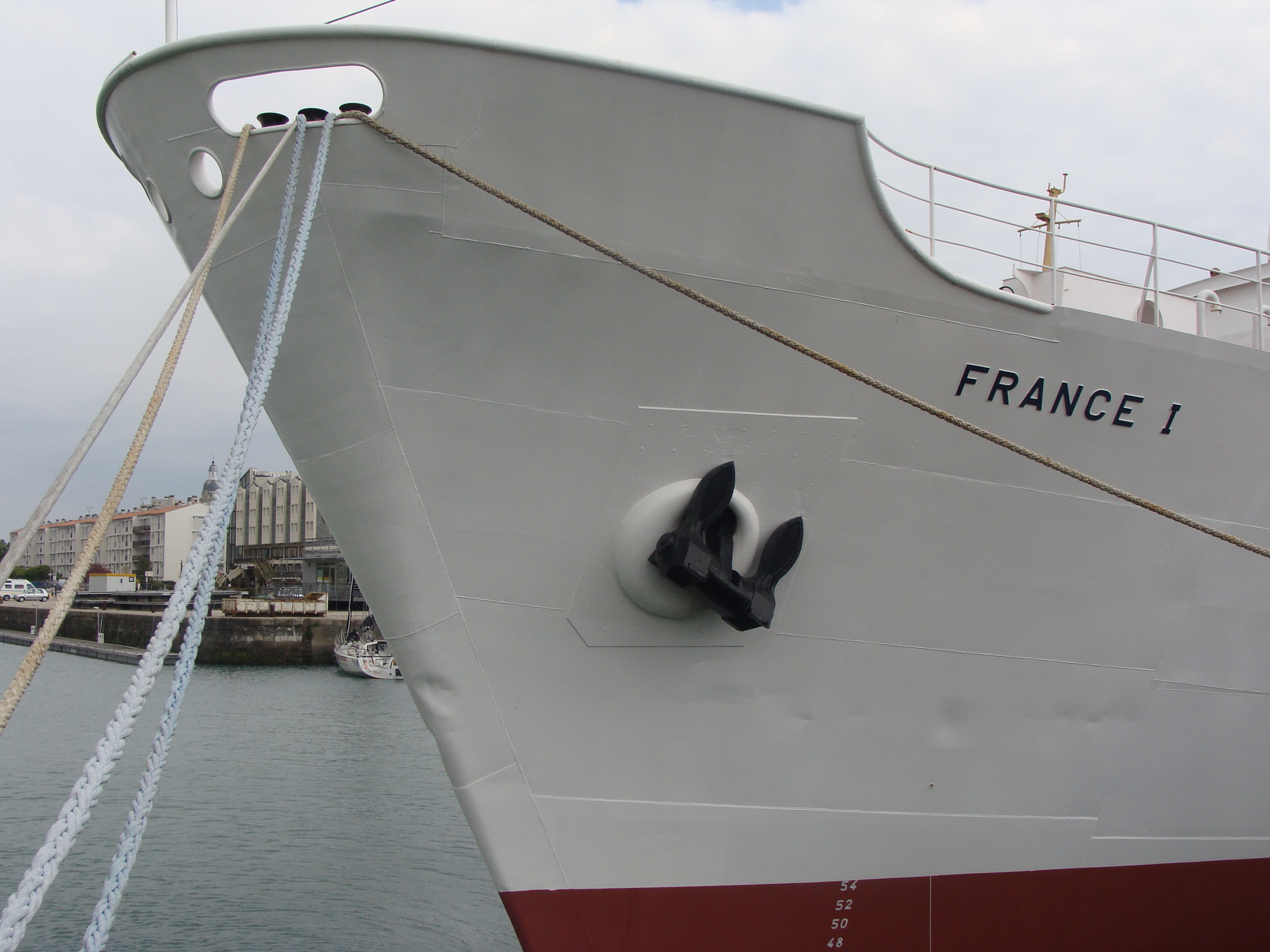 Bow of the former meteorological frigate "FRANCE 1", now the "Musée Maritime" in La Rochelle, France